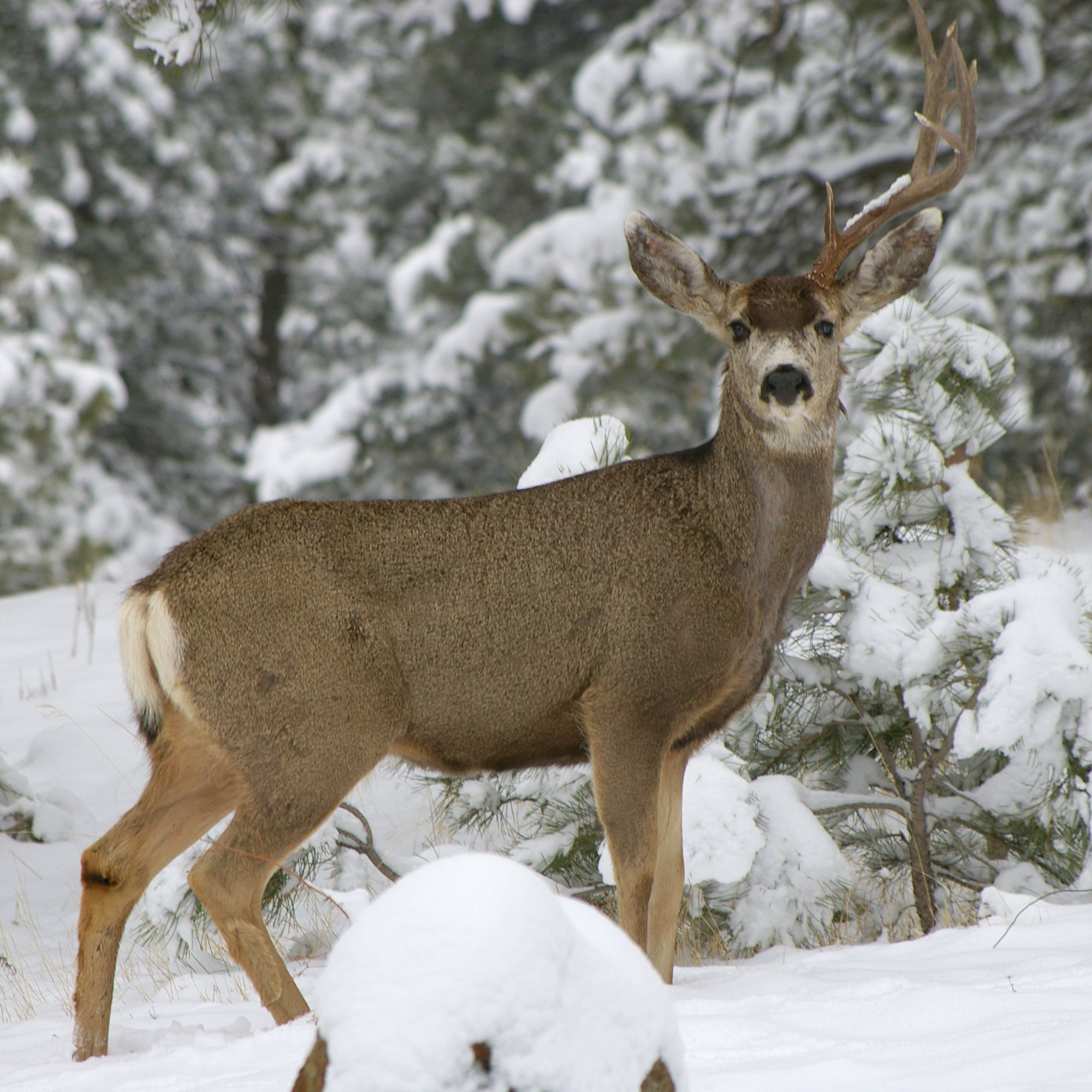 A mule deer missing an antler.